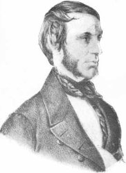 portrait of Irish rebel John Blake Dillon (1814 - 1866) circa 1840-1850